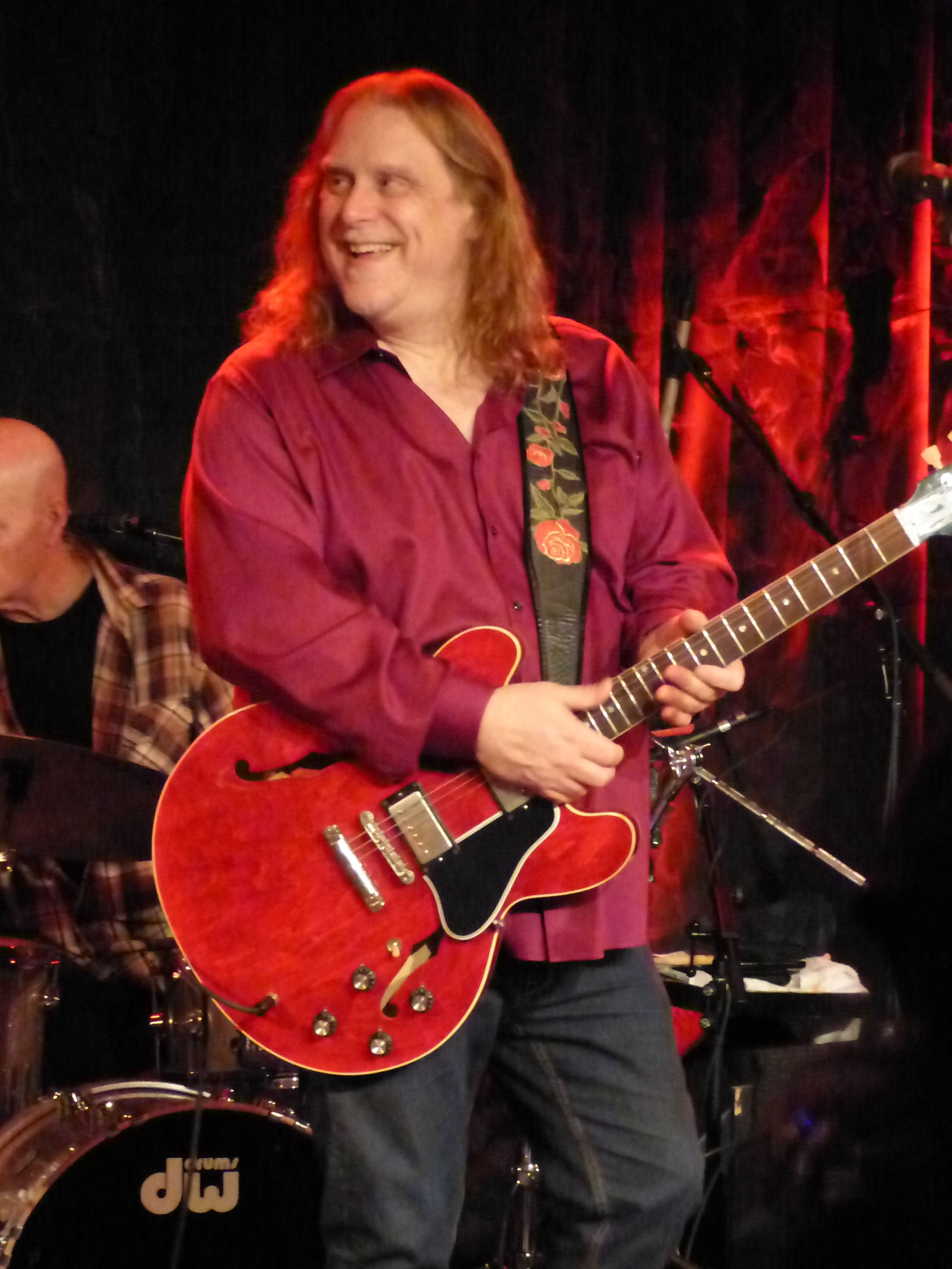 Warren Haynes performing with Phil Lesh & Friends 12-5-2013